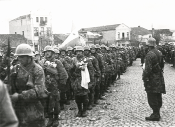 Bulgarian paratroopers entering Kumanovo in Macedonia after battles with Germans in October 1944.